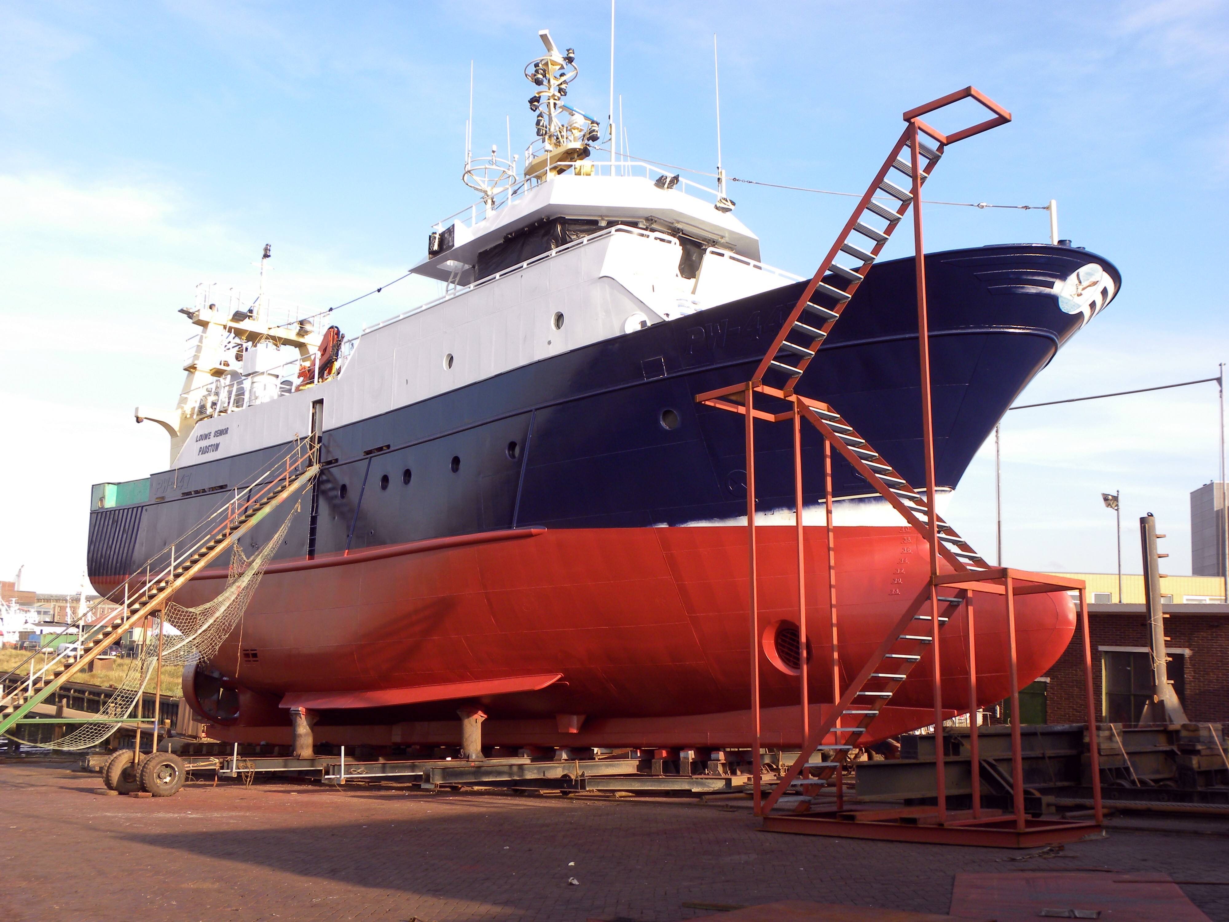 PW-447 Louwe senior - Padstow Trawler Build in 2002 here for a hull paint job